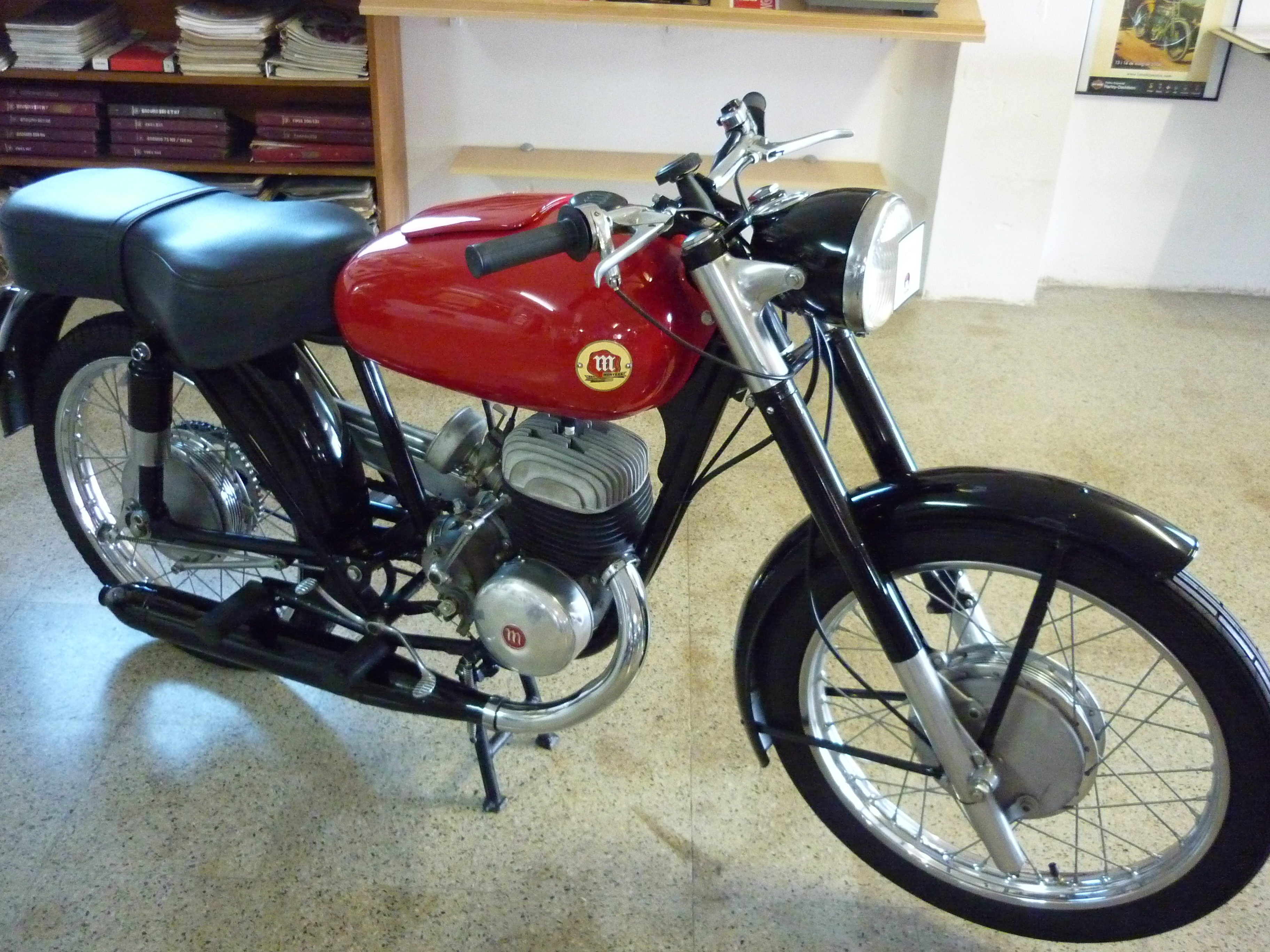 Montesa Brio 110 S (1961).Isern Motorcycle Museum, Mollet del Vallès (Catalonia).